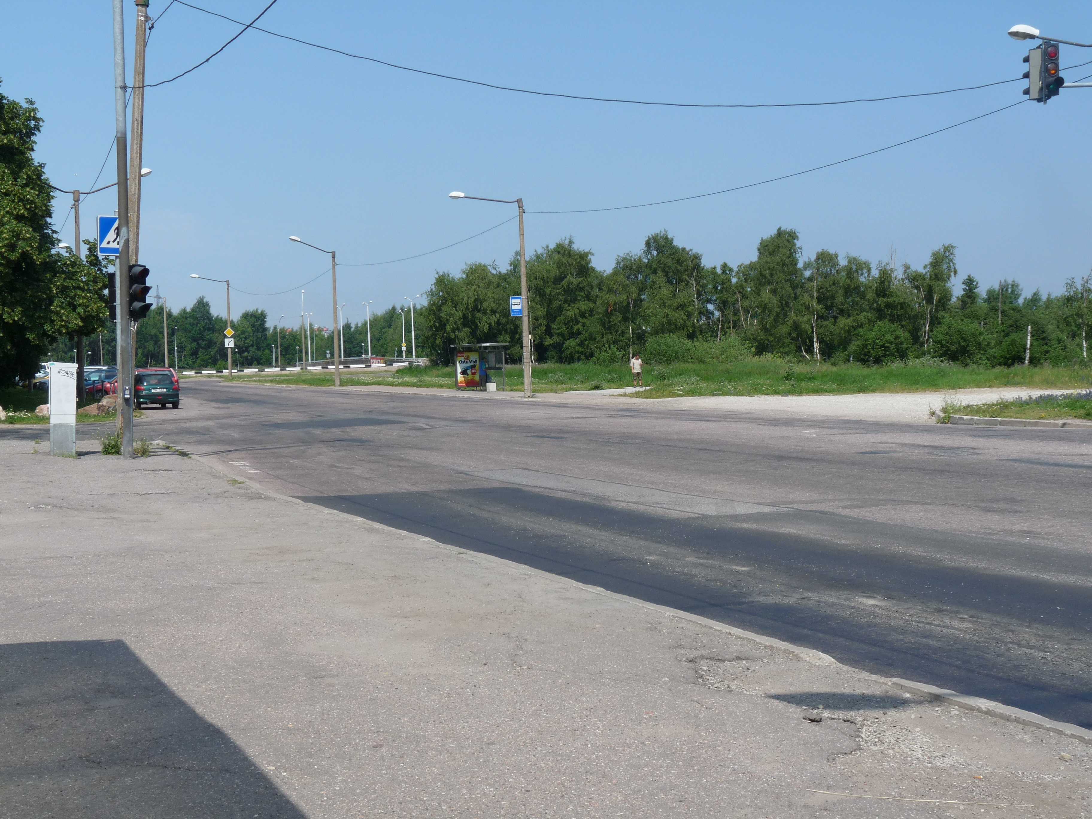 Varraku street in Tallinn, Estonia.